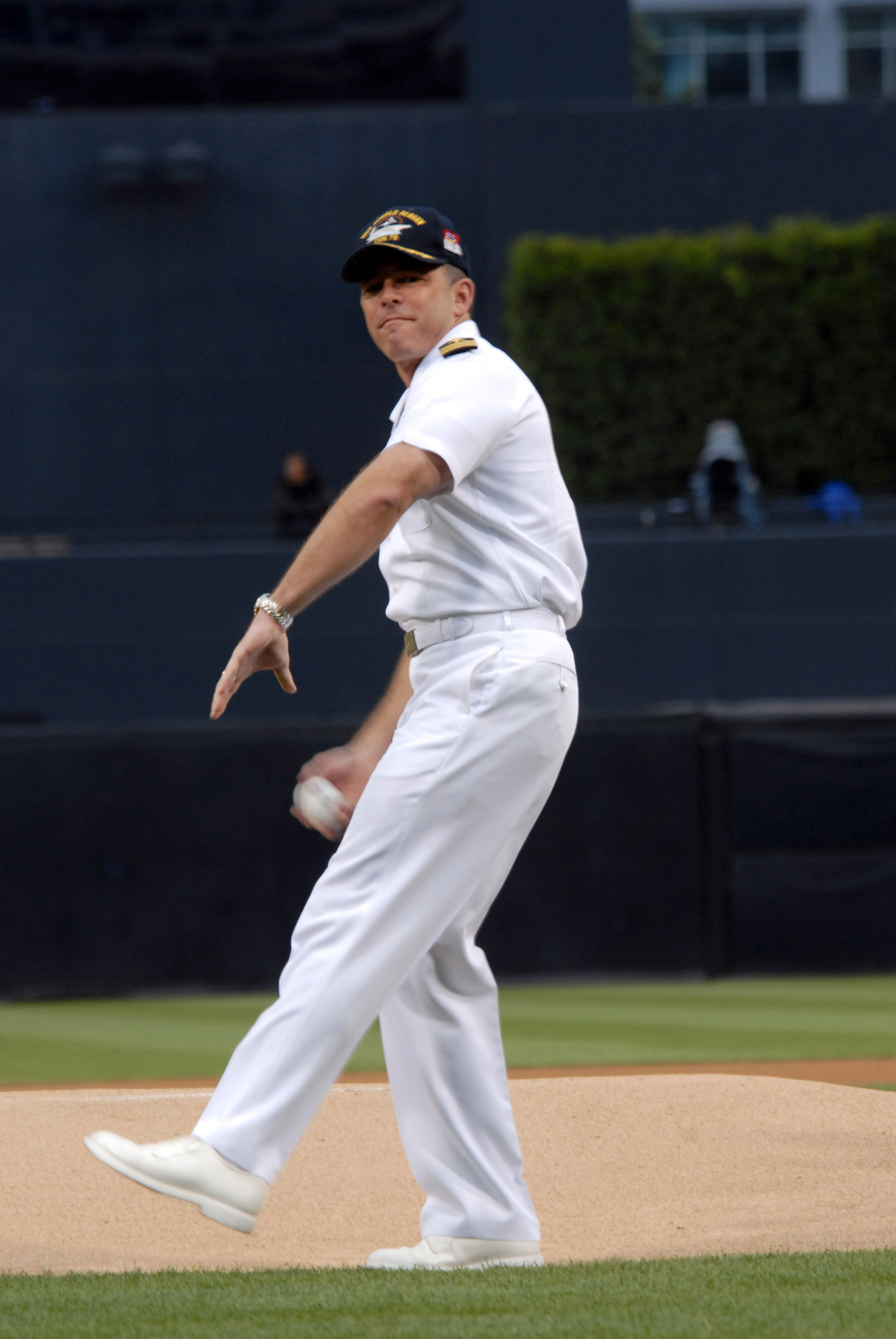 SAN DIEGO (May 1, 2007) - USS Ronald Reagan (CVN 76) Commanding Officer, Capt. Terry B. Kraft, throws out the ceremonial first pitch prior to a San Diego Padres baseball game honoring the ship. Other events at Ronald Reagan Day included honoring Sailors of the quarter and Sailors of the year, Intelligence Specialist 2nd Class Jarrod Fowler performing the National Anthem and Mass Communication Specialist 1st Class John Lill's reenlistment. Ronald Reagan is currently undergoing a planned incremental availability (PIA) in her homeport of San Diego. U.S. Navy photo by Mass Communication Specialist 2nd Class Joseph M. Buliavac (RELEASED)